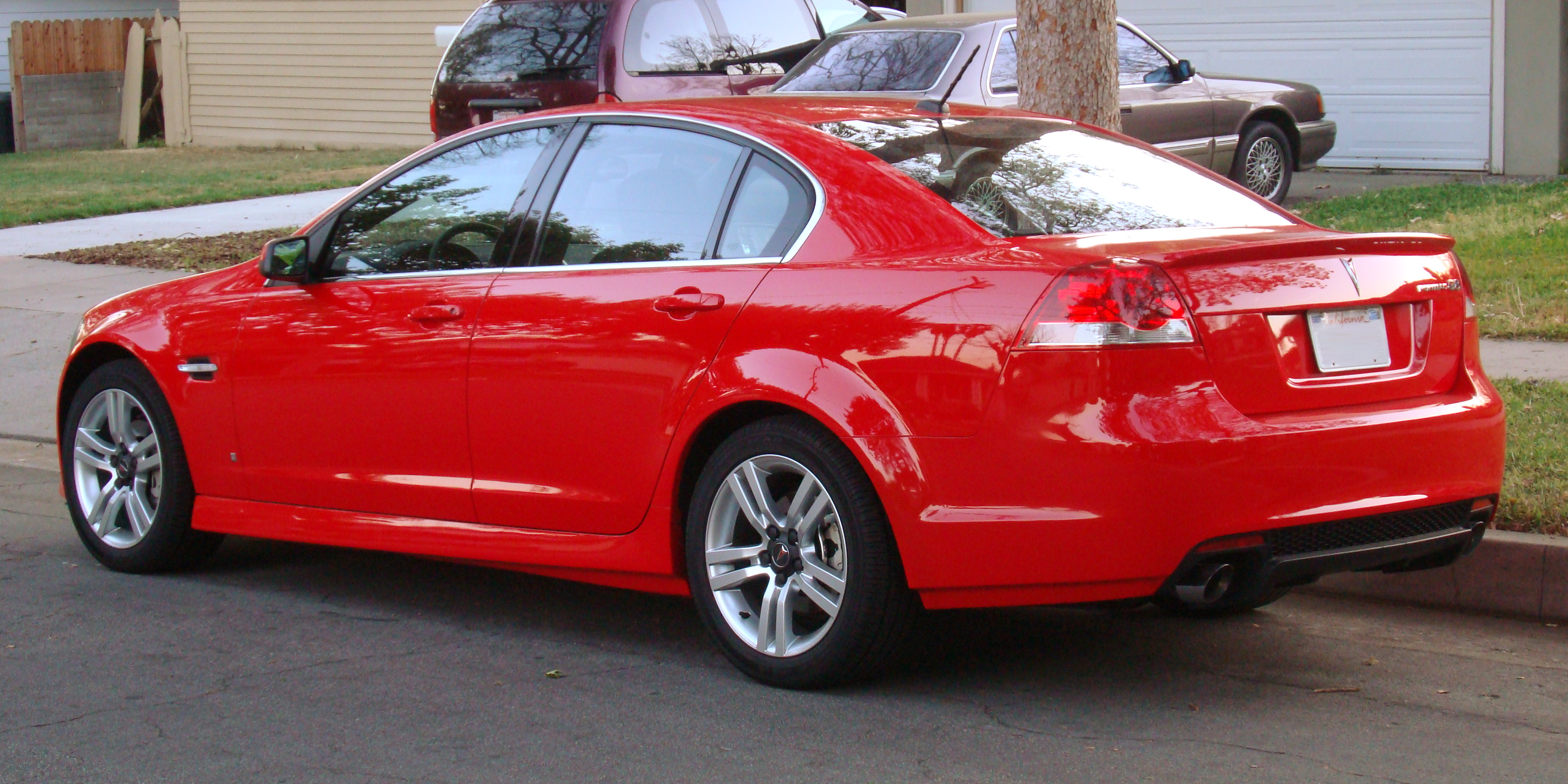 2008 Pontiac G8. Camera used was a Sony Cyber-shot DSC-W200.